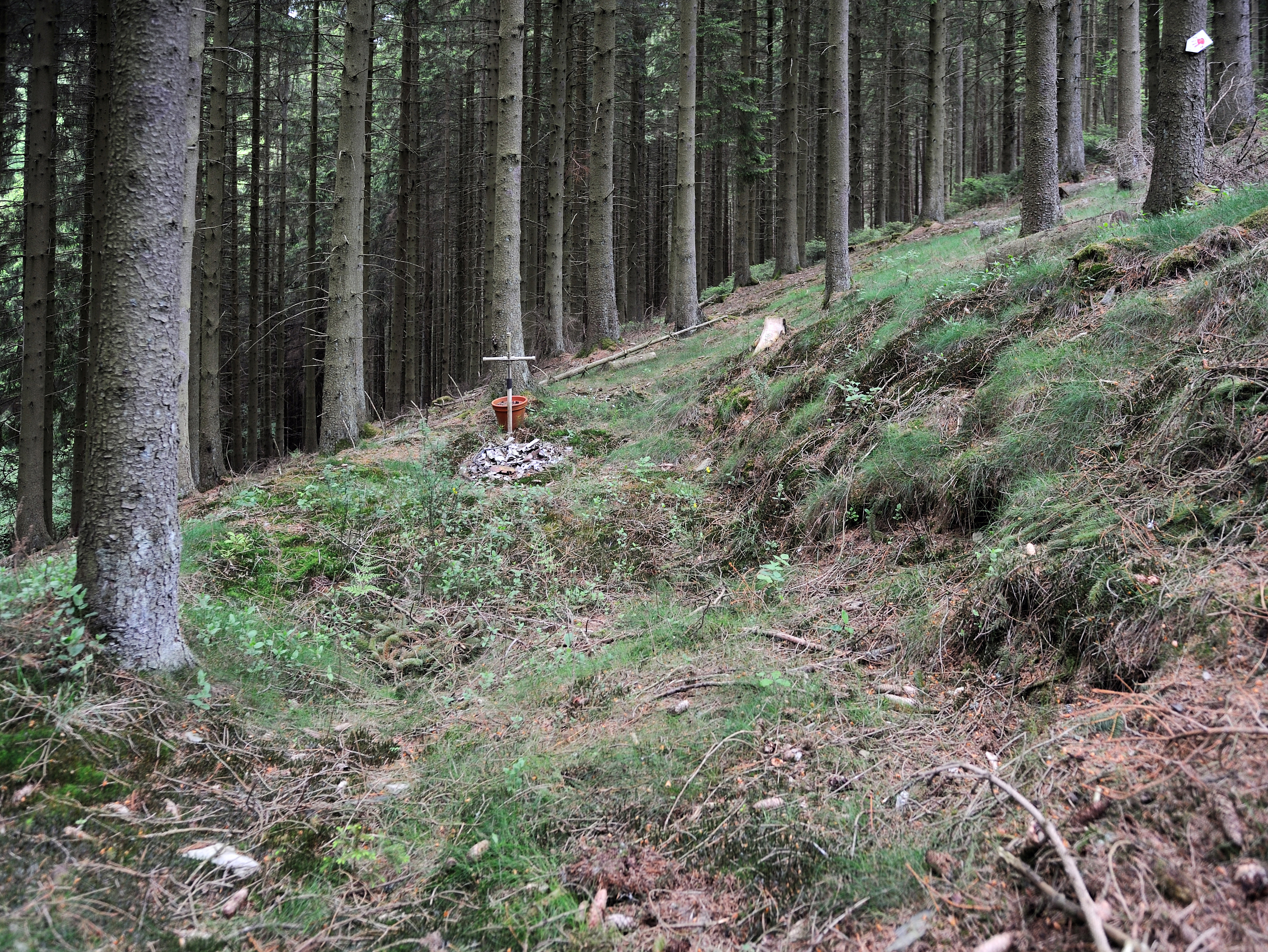 Luxembourg Rambrouch: the site where the Royal Air Force Halifax bomber W7677 crashed on September 9 1942. The bomber dropped bombs over Frankfurt am Main where it was damaged by anti-aircraft gunfire. On its return to England, it went down near Rambrouch in Luxembourg. Three of the seven crew members died in the crash. Their tombs are at the cemetery in Rambrouch. The cross was erected by Martin Scheeck (1915-2008), inhabitant of Rambrouch. In front of the cross: pieces of the crashed plane collected from the surroundings.